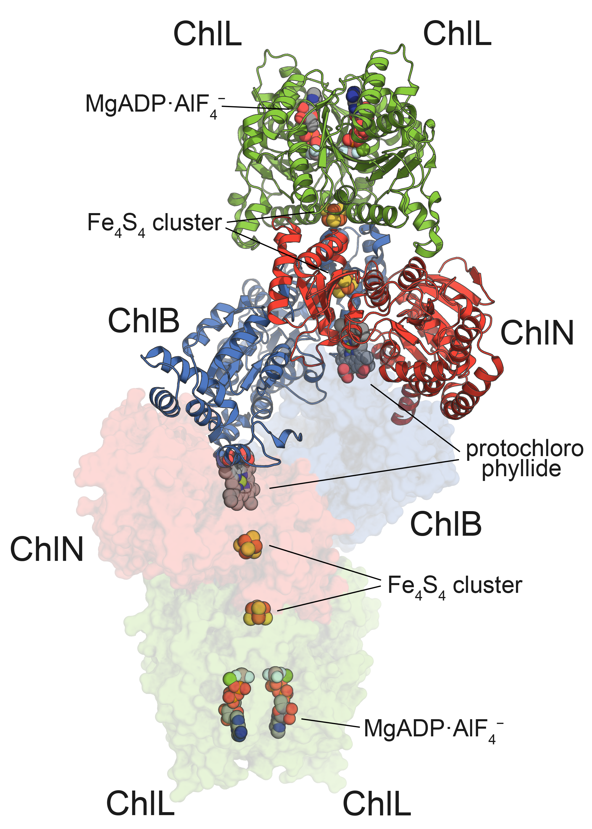 Heterooctamer of a dark-operative protochlorophyllide oxidoreductase from Prochlorococcus marinus. A heterotetramer (ChlNBL2) is shown in a cartoon representation, while a second heterotetramer is shown as a surface representation. The ligands are shown as spheres. PDB-ID: PDB: 2ynm​. Corresponding paper